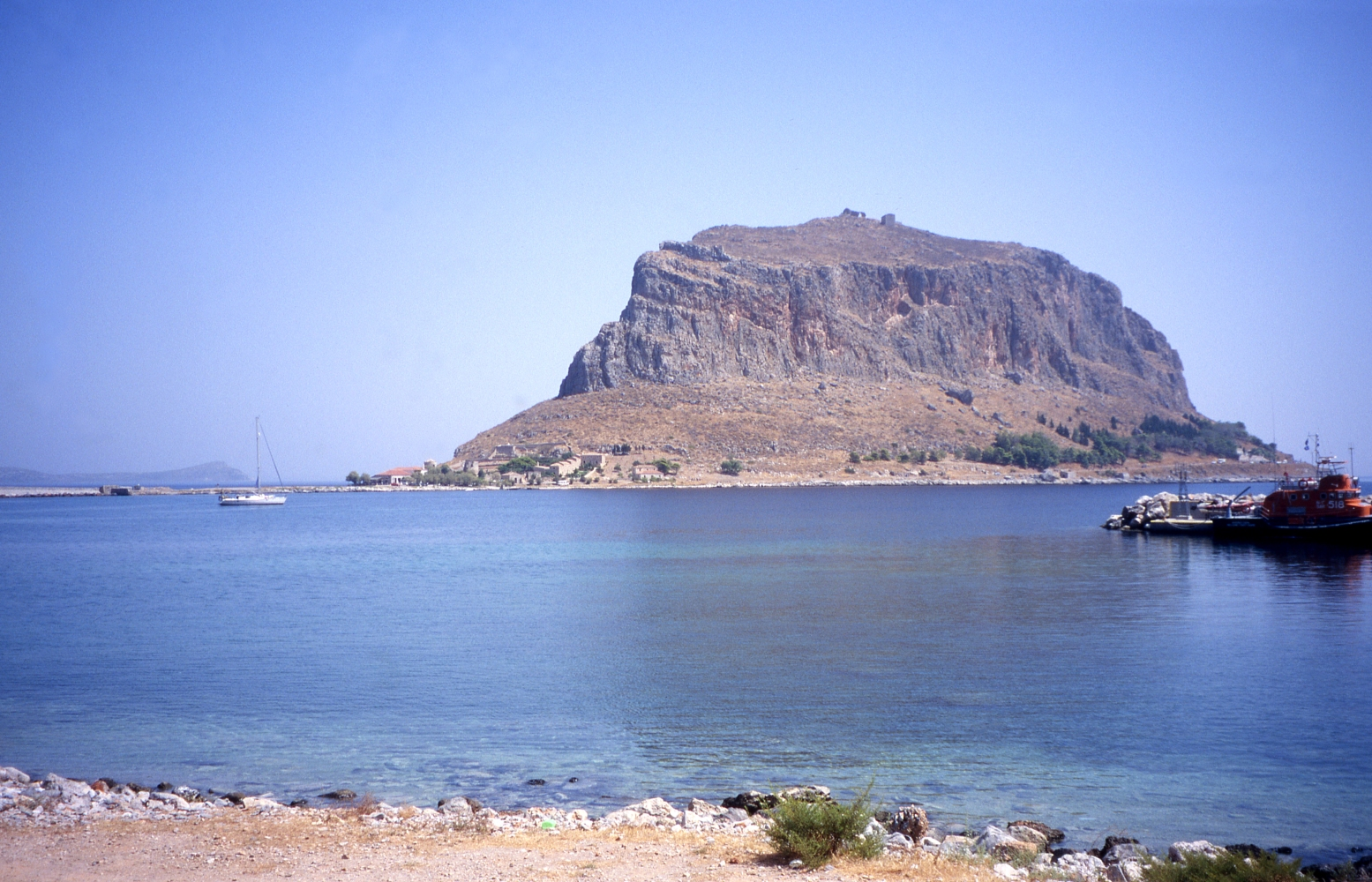 Rock of Monemvasia from Mainland